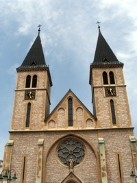 Photo of the Cathedral in Sarajevo, taken with Canon A75.